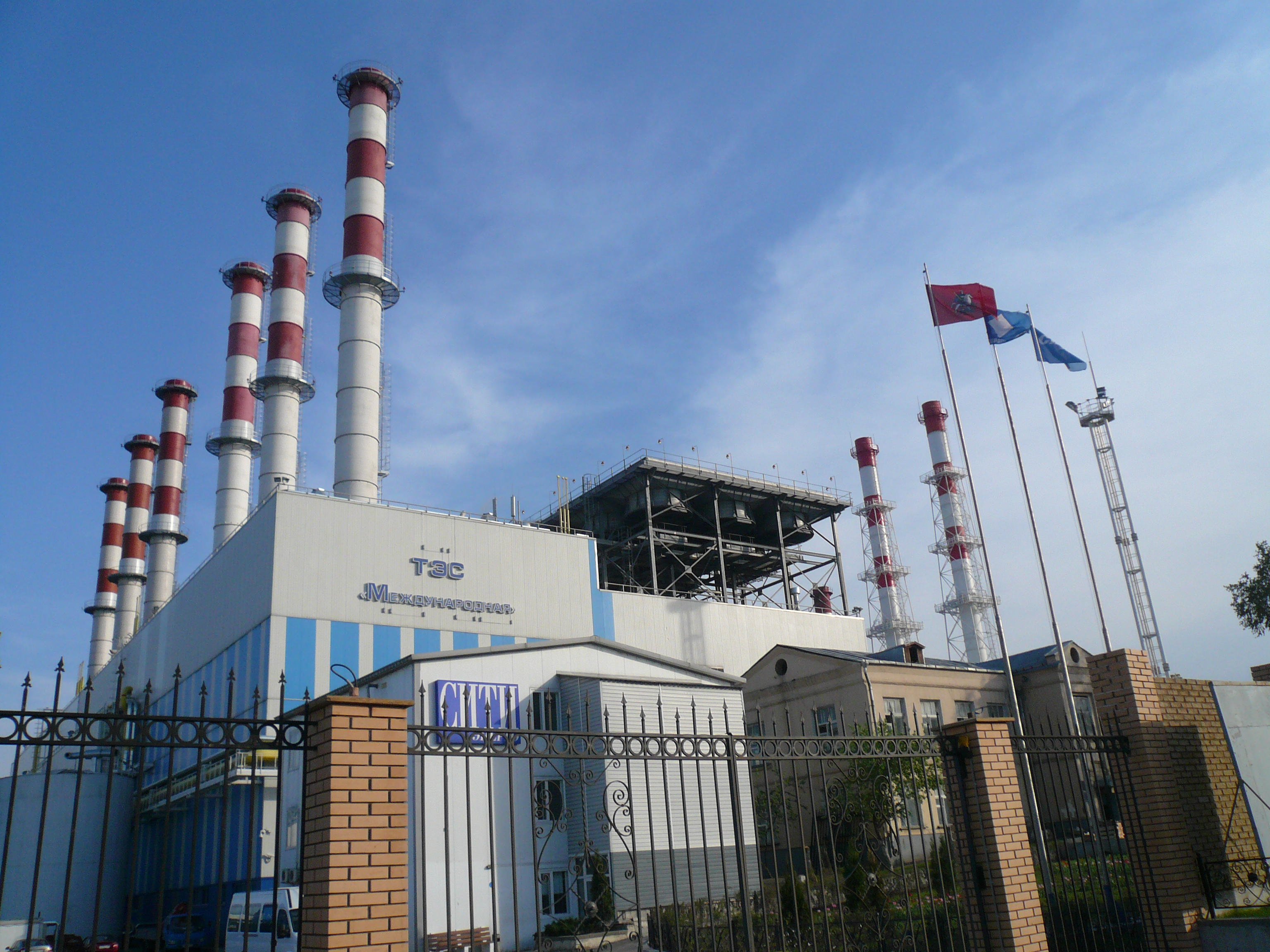 Thermal power plant "Mezhdunarodnaya", Moscow, Russia